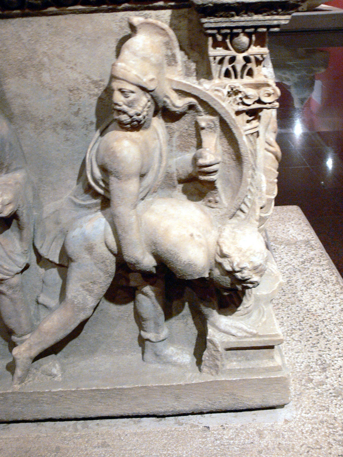 Antalya Archaeological Museum. Ancient Roman sarcophagus of Aurelia Botania Demetria ( 2nd century AD ): Menelaos carrying the corpse of Patroklos.